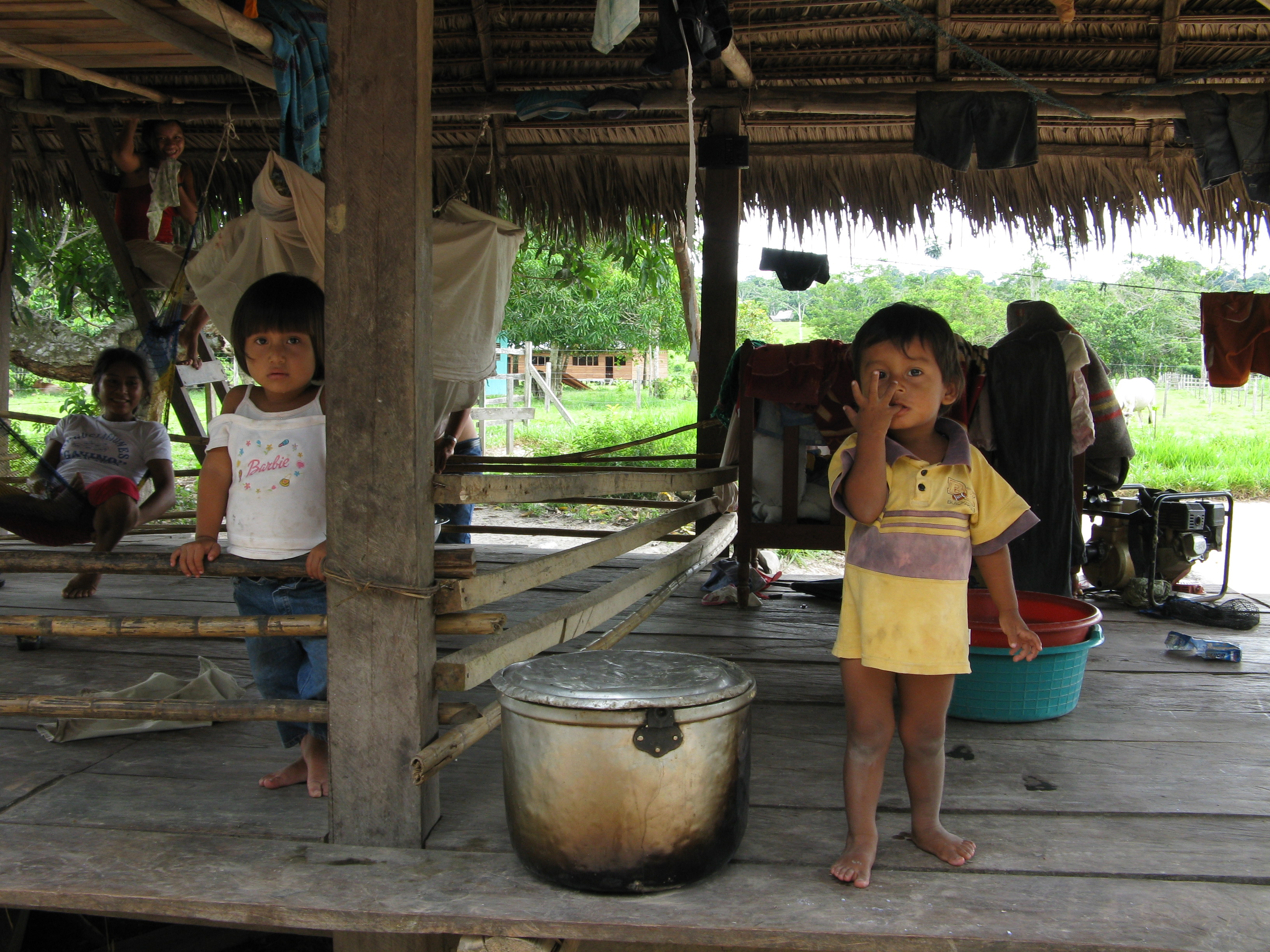 Asháninka in Peru, Comunidades Nativas Asháninka "Nuevos Unidos Tahuantinsuyo", District Huanuco